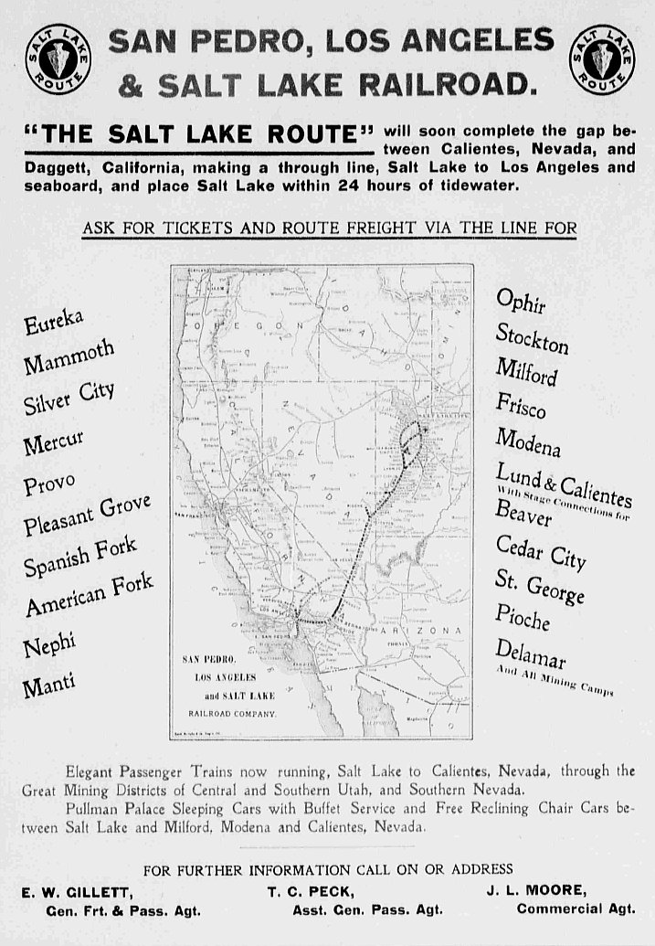 Newspaper ad (1903) for the Los Angeles and Salt Lake Railroad in southwestern U.S. With map of route from Los Angeles through the Mojave Desert, Nevada's Clark County, and western Utah. extracted from the PDF shown.